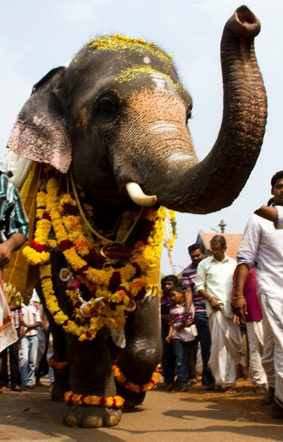 Thiru Vazhappally Mahadevan